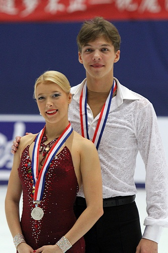 Ekaterina Bobrova / Dmitri Soloviev at the Cup of China 2010